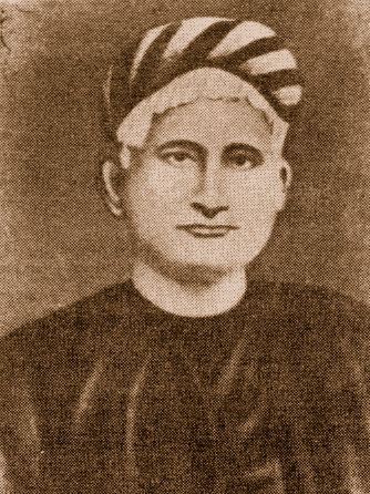 Bankim Chandra Chattopadhyay (1838-1894), Bengali writer